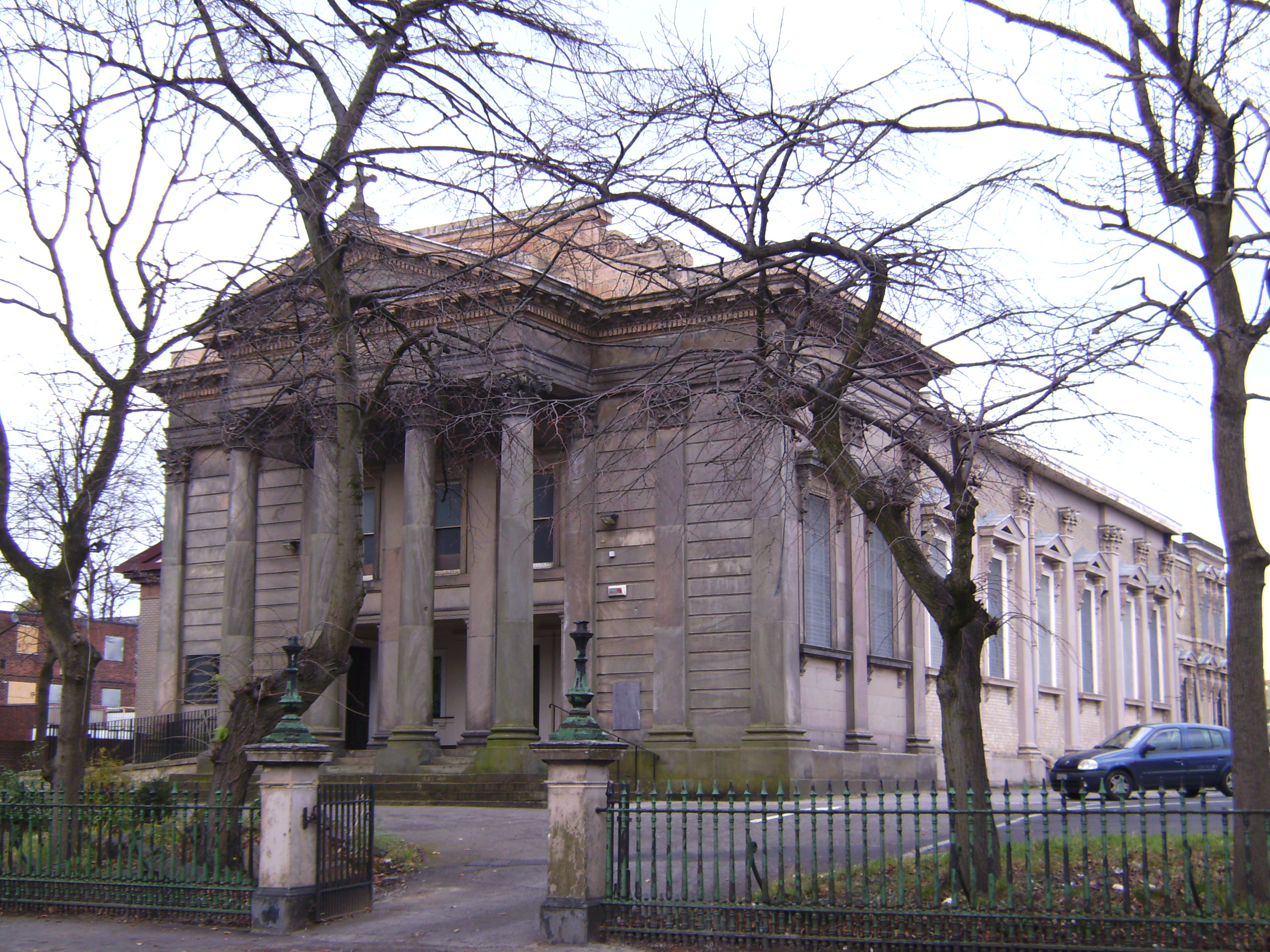 Greek Orthodox Church of the Annunciation, Bury New Road, Higher Broughton, Salford, Greater Manchester, seen from the southwest